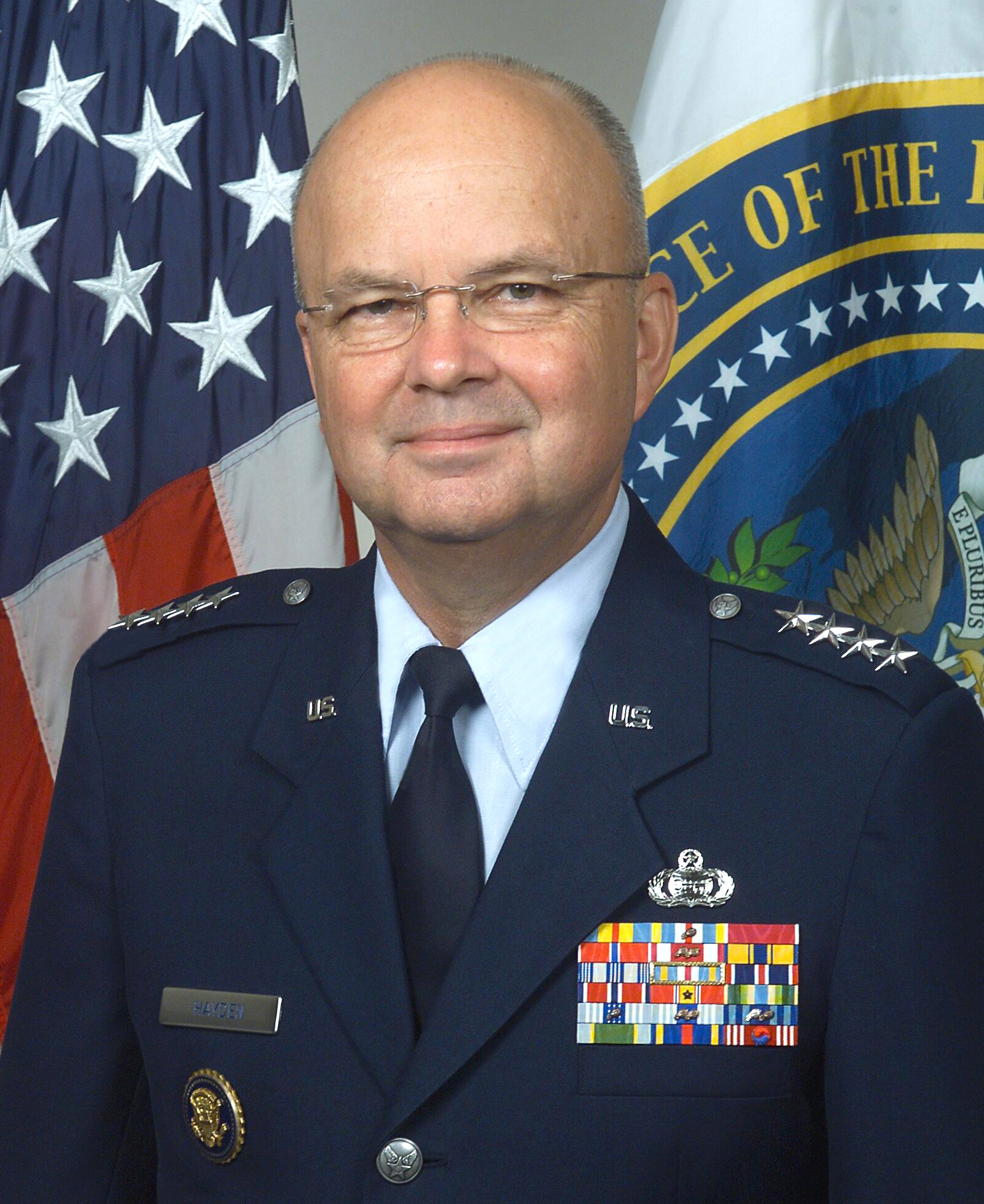 Michael Hayden, Air Force general.